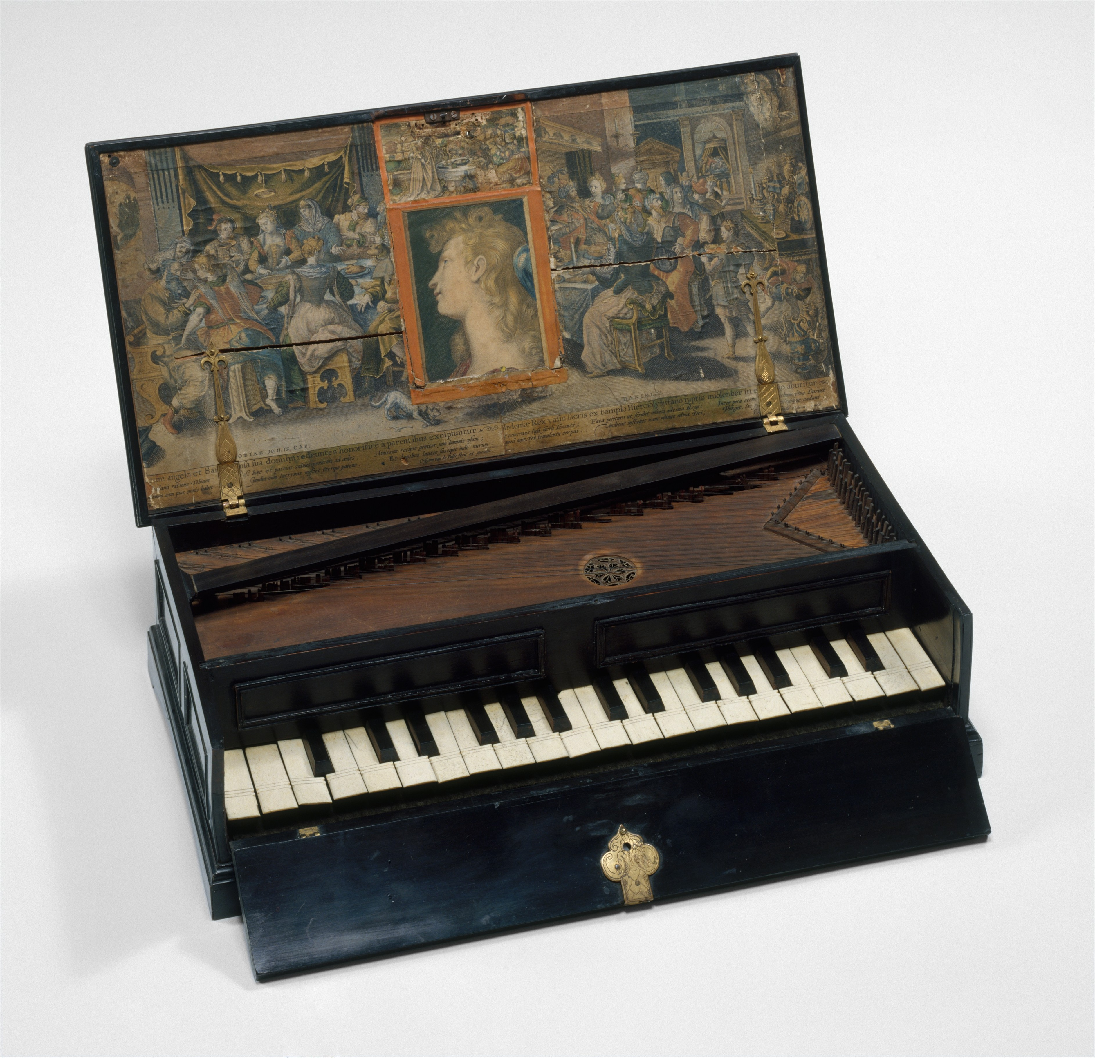 German; Rectangular Octave Virginal; Chordophone-Zither-plucked-virginal